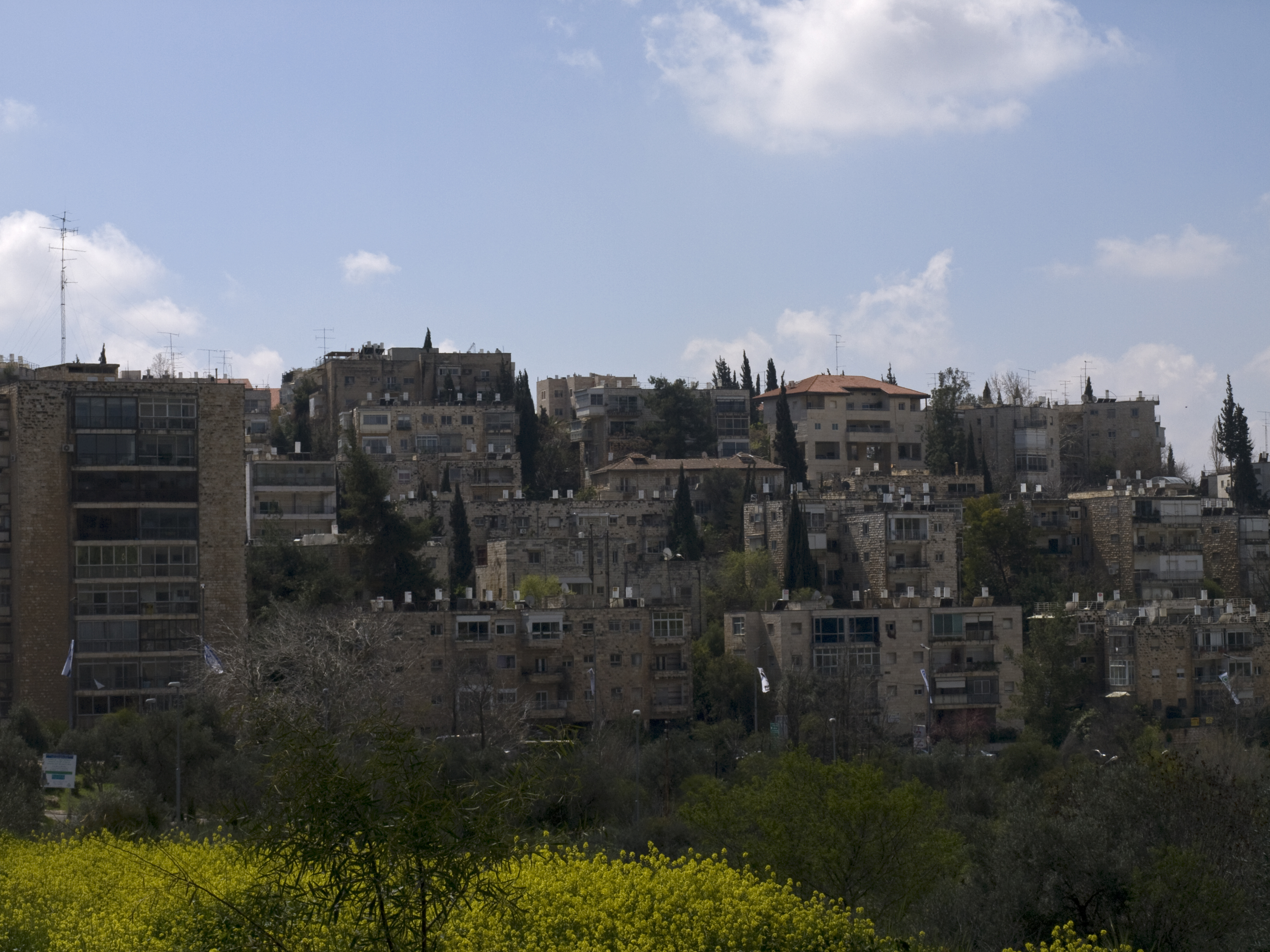 Panorama of Kiryat Shmuel, taken from the Monastery of the Cross